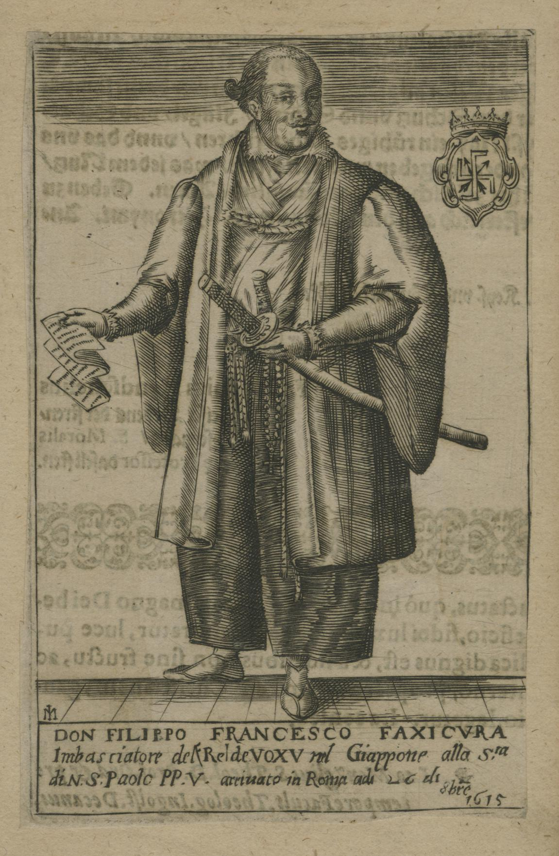 Drawing of Hasekura by Amati. 1615.